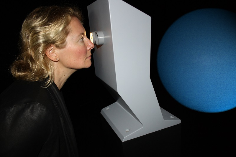 Olga and Custom Made